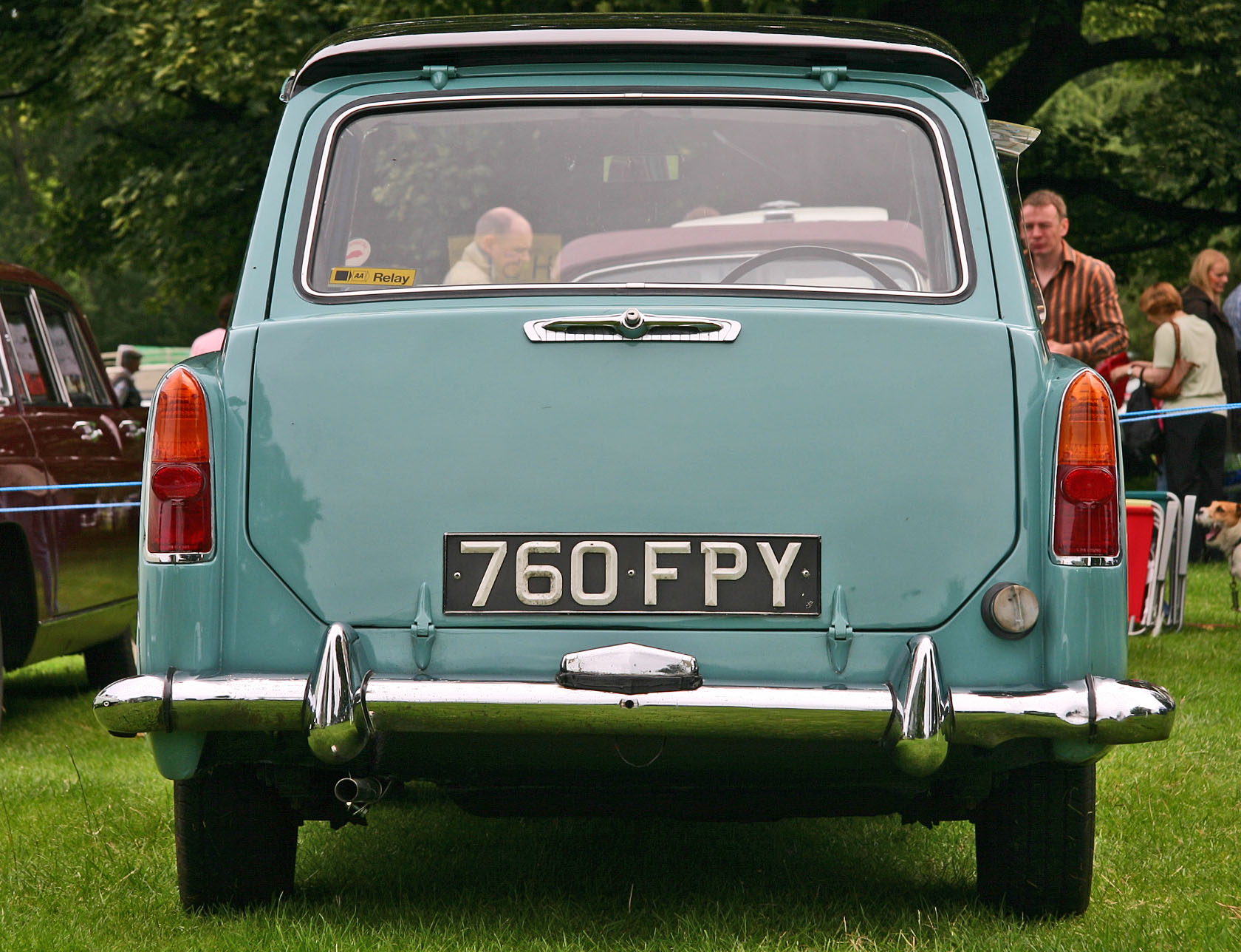 Austin A40 MkII Countryman. This early 'hatchback' had a lift-up rear window and a drop-down bootlid. Italian-built Innocenti versions had a full height one-piece lift up hatch just like modern hatches.